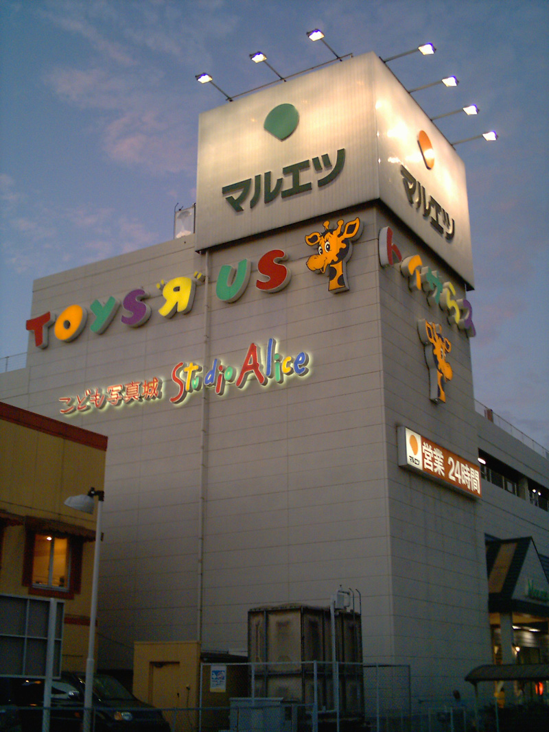 Toysrus-Shop_japan photography day, 2006.10.15. photography person kici